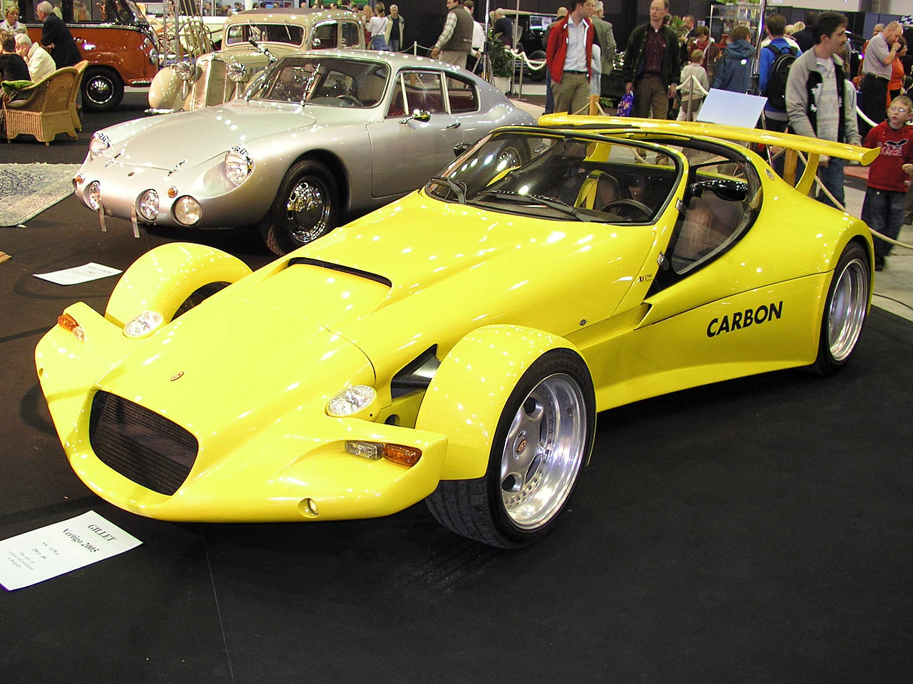 Sports car with 300 hp Cosworth engine made in small numbers by Tony Gillet in Gembloux, Belgium; left front-side view. Though identified as a 2005 model by the sign in front of the car its actually a Mk 1 model from 1994.